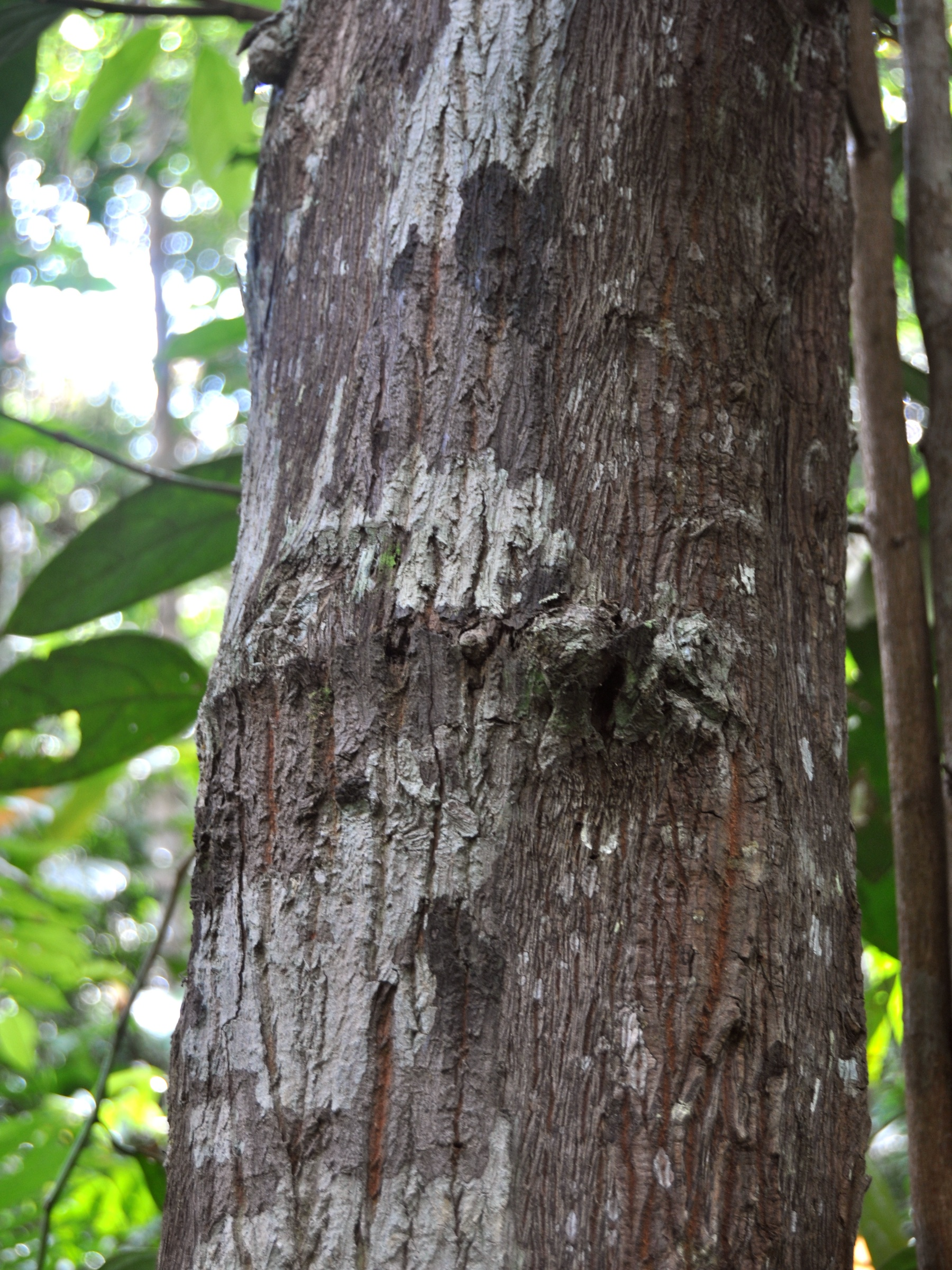 Scorodocarpus borneensis bark, from Jambi, Sumatra, Indonesia.